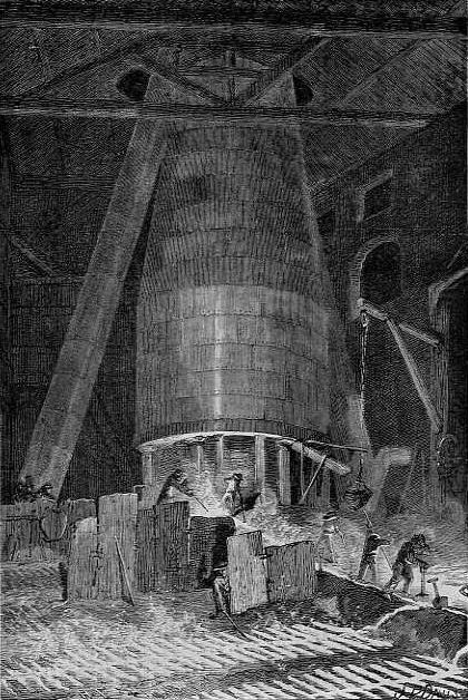 Pittsburgh Sketches -- The Bottom of a Blast Furnace, a wood engraving printed March 18, 1871 in Every Saturday, published by J. Osgood & Company, Boston, Massachusetts.